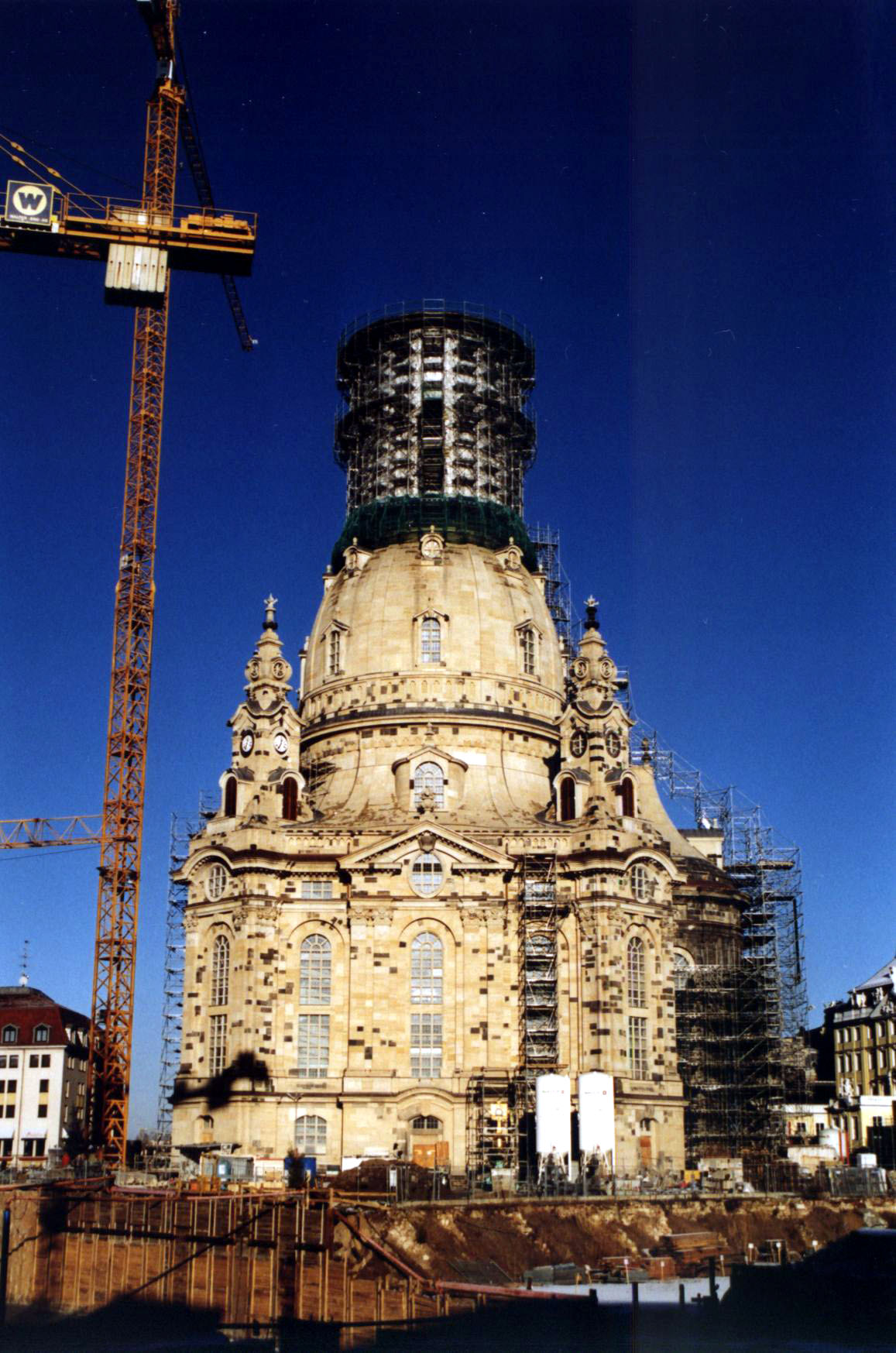 Frauenkirche Dresden